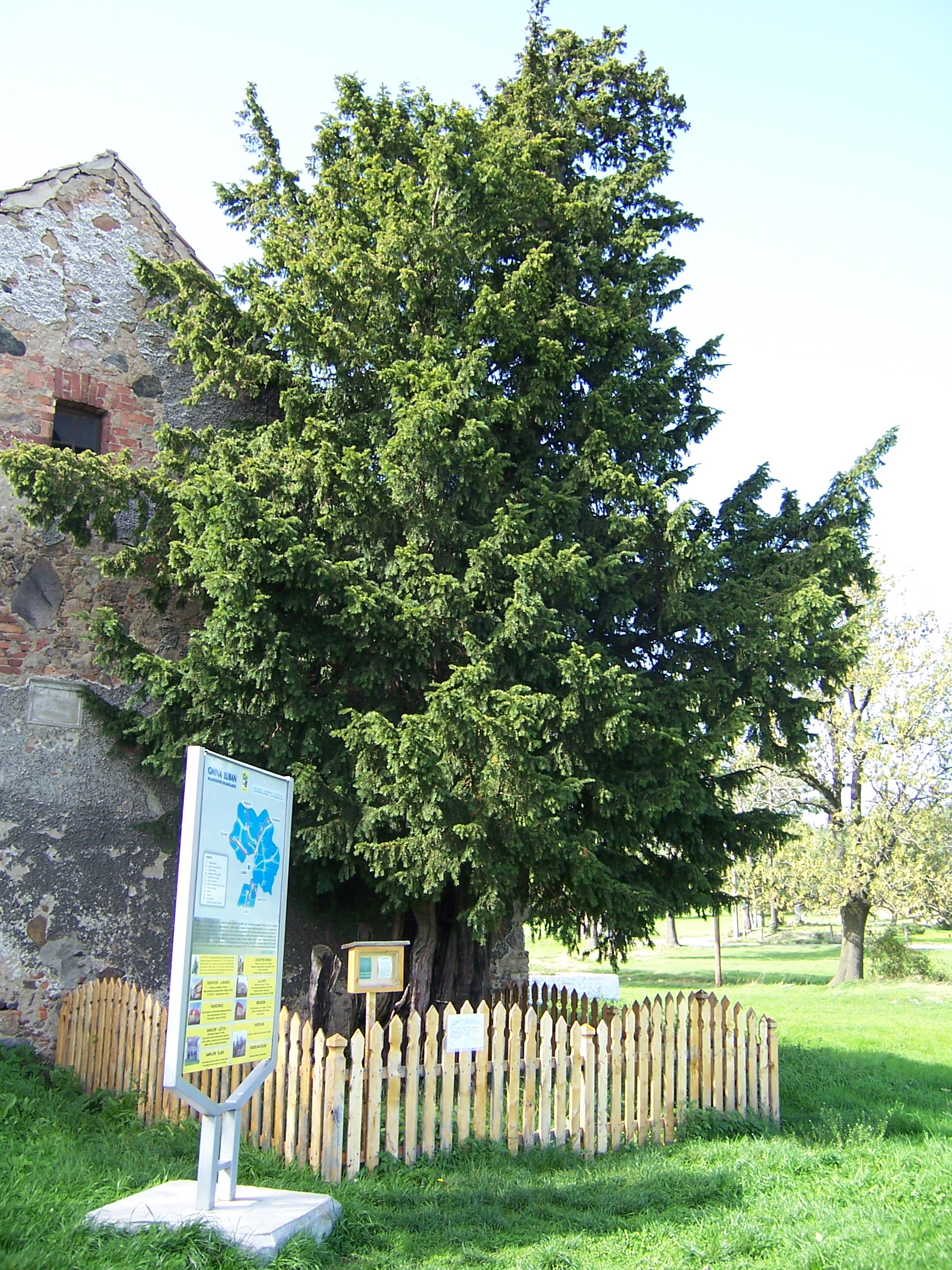 Oldest tree in Poland, and probably in Central Europe. Age was determined to be 1200, 1300 or 1500 years. Height - 15m. In 1813 its stem was damaged by the Cossacks (they made cuts using their sabres). Biggest damage to tree was caused by strong winds in 1988-1989, when one of branches was destroyed. Because of that it lacks it's previous circumference (5m). (source - sign nearby tree in question)